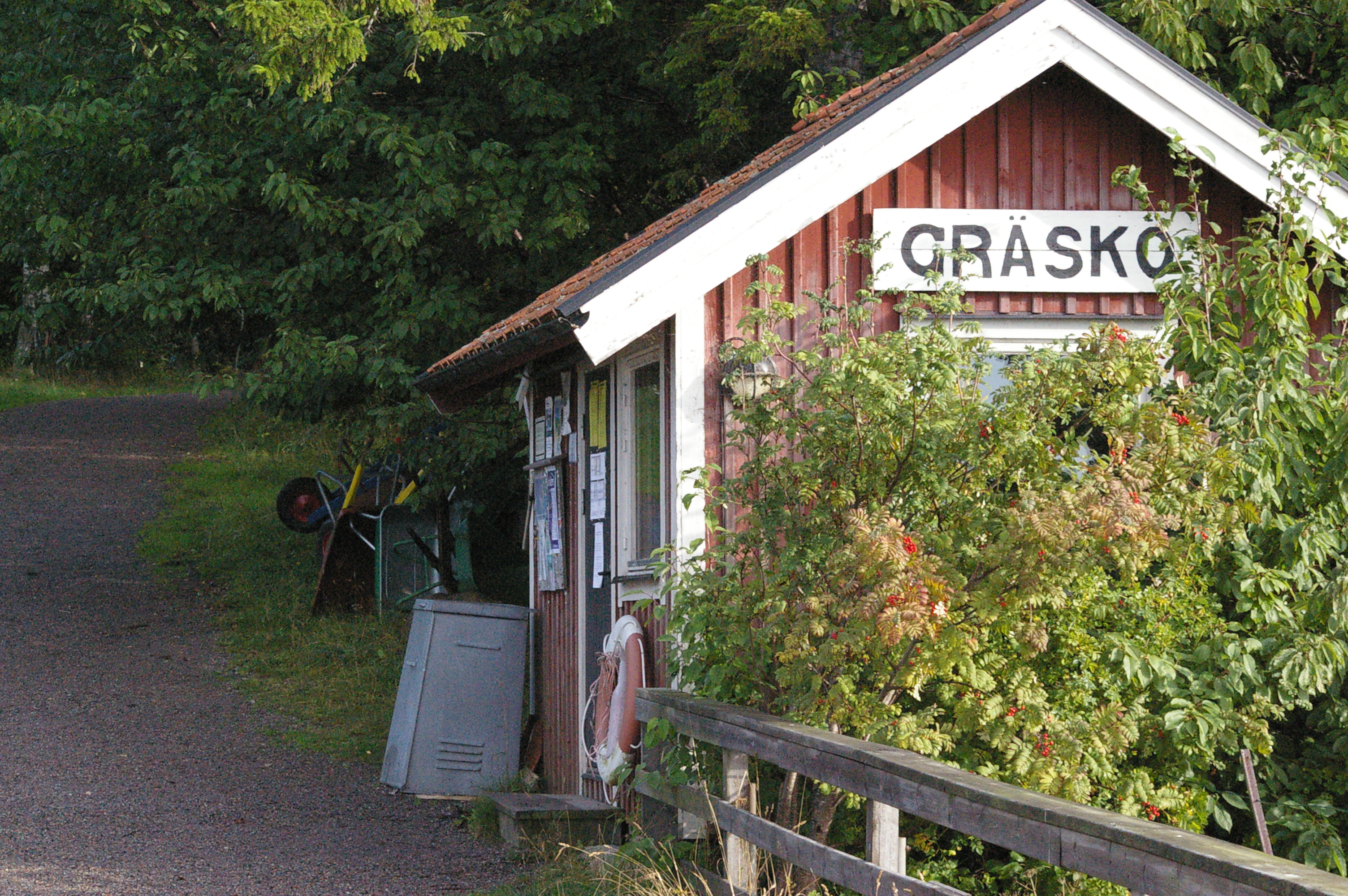 "Gräsköhuset" which is located just off the steamboat pier where Waxholm boats arrive. The house serves as shelter before departure from the island, such as during bad weather. The house also contains a number of books that private individuals have given for loans to the rest of the island.